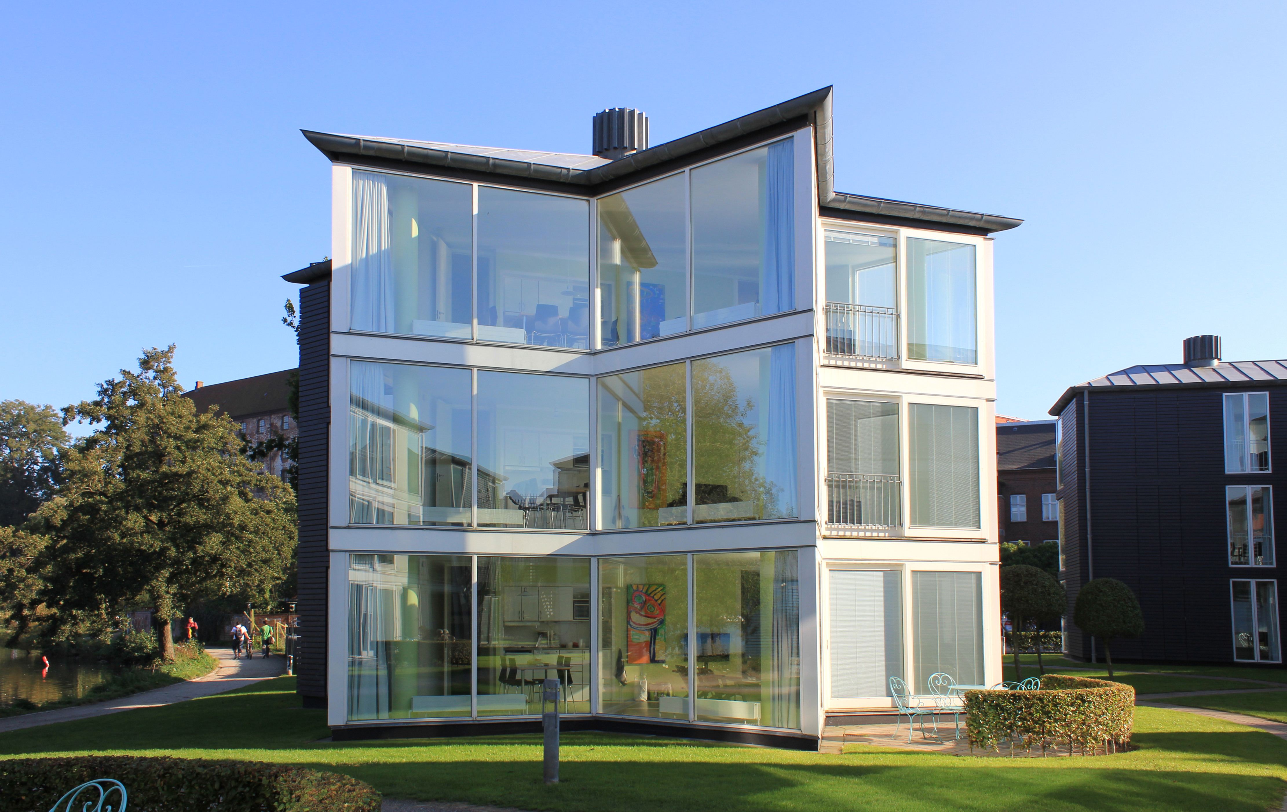 Kolding Byferie. (Kolding Cityholiday) Built i 1992-93. Architects Troels Hasner og Ole Justesen received in 1994 the prize: Nykredits Arkitekturpris. 13 buildings containing 85 apartments.